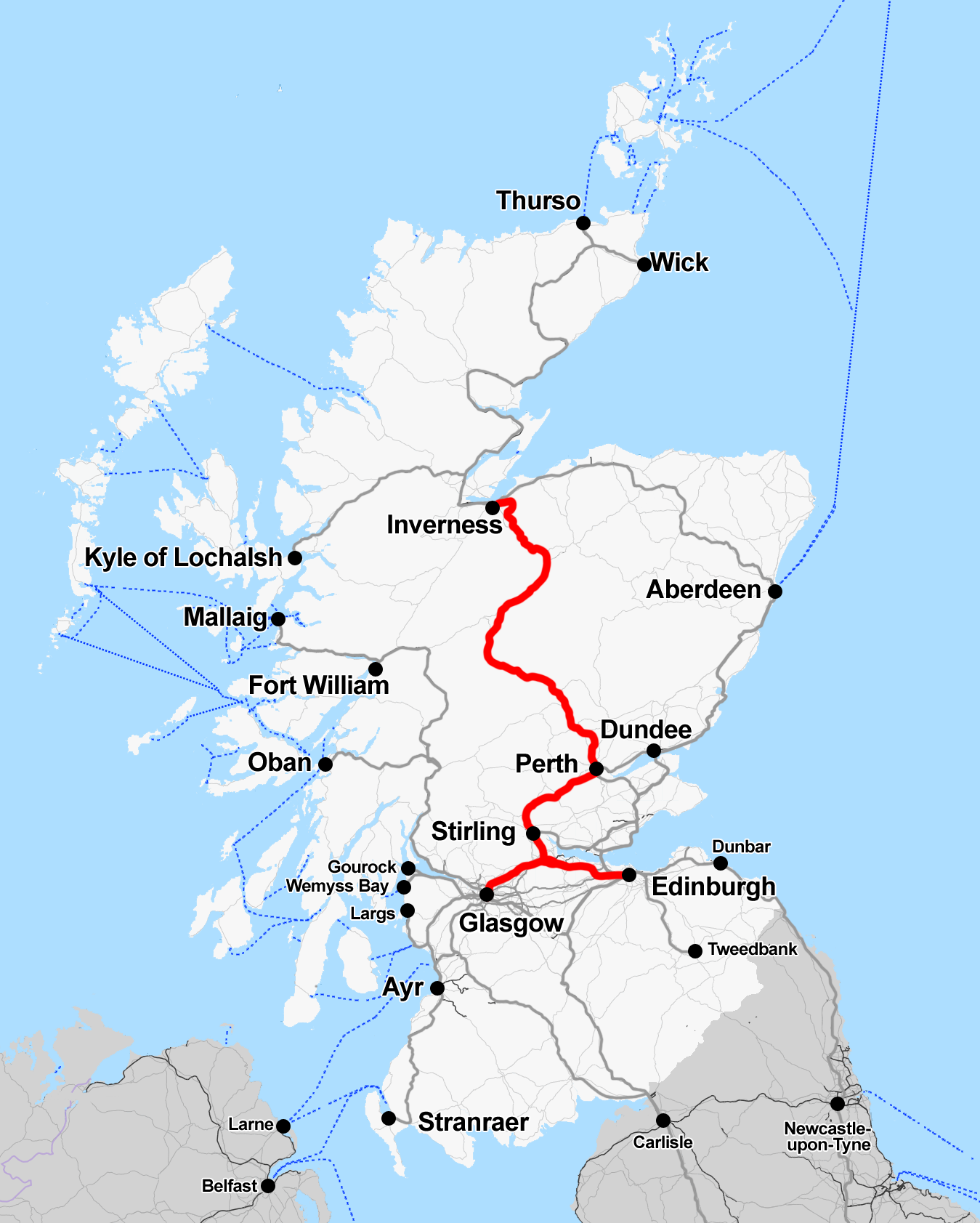 Railway map of Scotland showing the Highland line This map may be incomplete, and may contain errors. Don't rely solely on it for navigation.